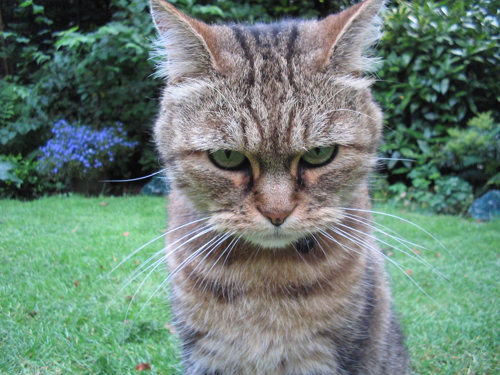 Angry cat